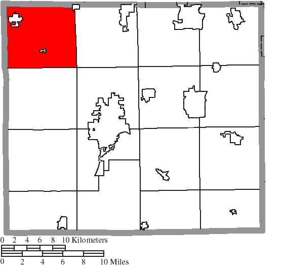 Map of the municipal and township boundaries of Wayne County, Ohio, United States, as of the 2000 census, with the location of Congress Township highlighted. Township borders are shown only in unincorporated areas in order to differentiate incorporated and unincorporated areas more clearly.